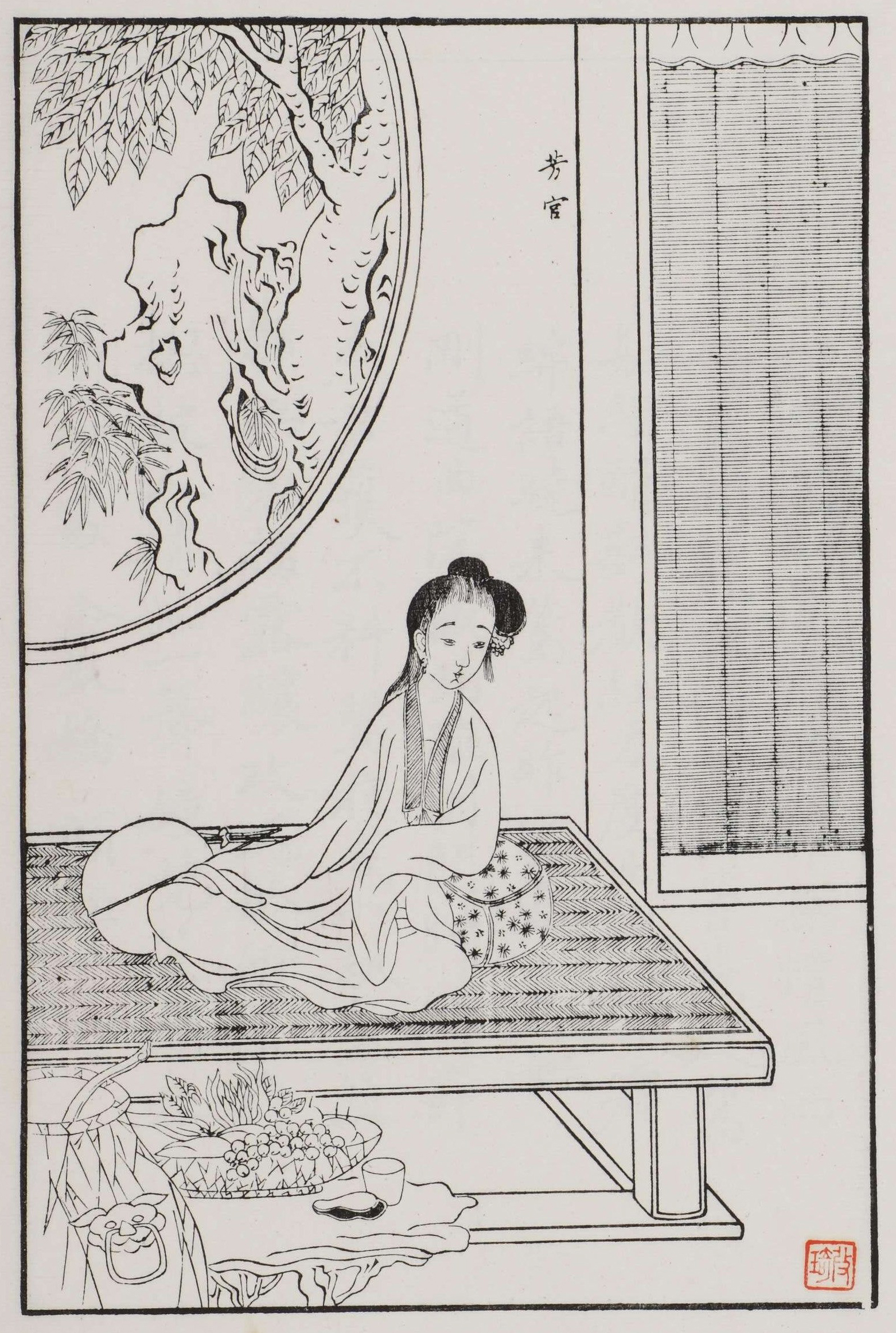 Fang Guan